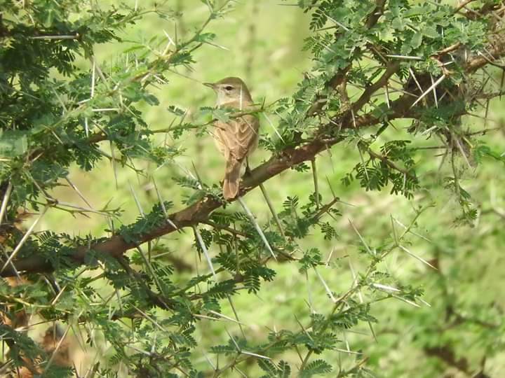 This file has the image Booted Warbler bird